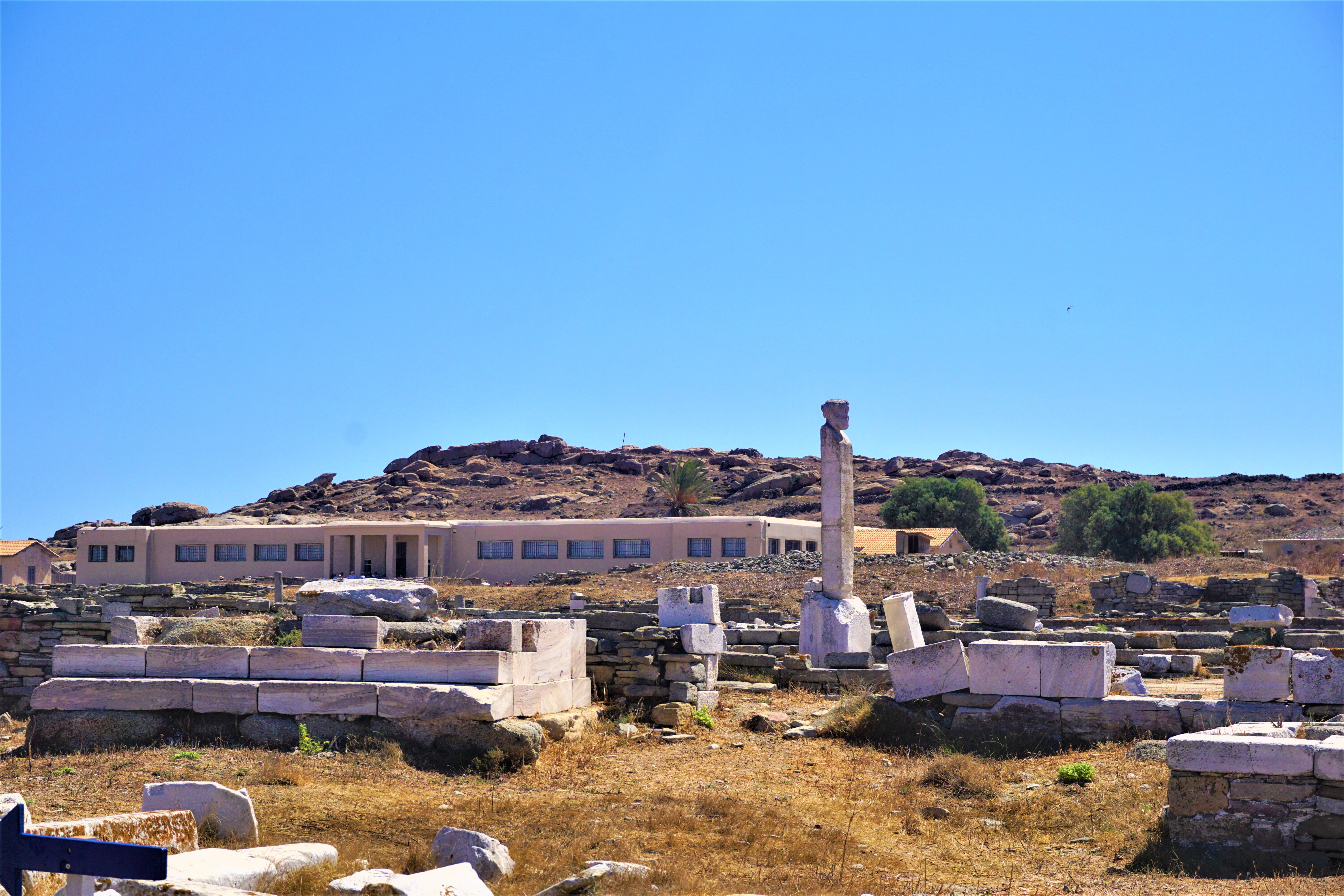 Archaeological Museum of Delos by Joy of Museums, for information